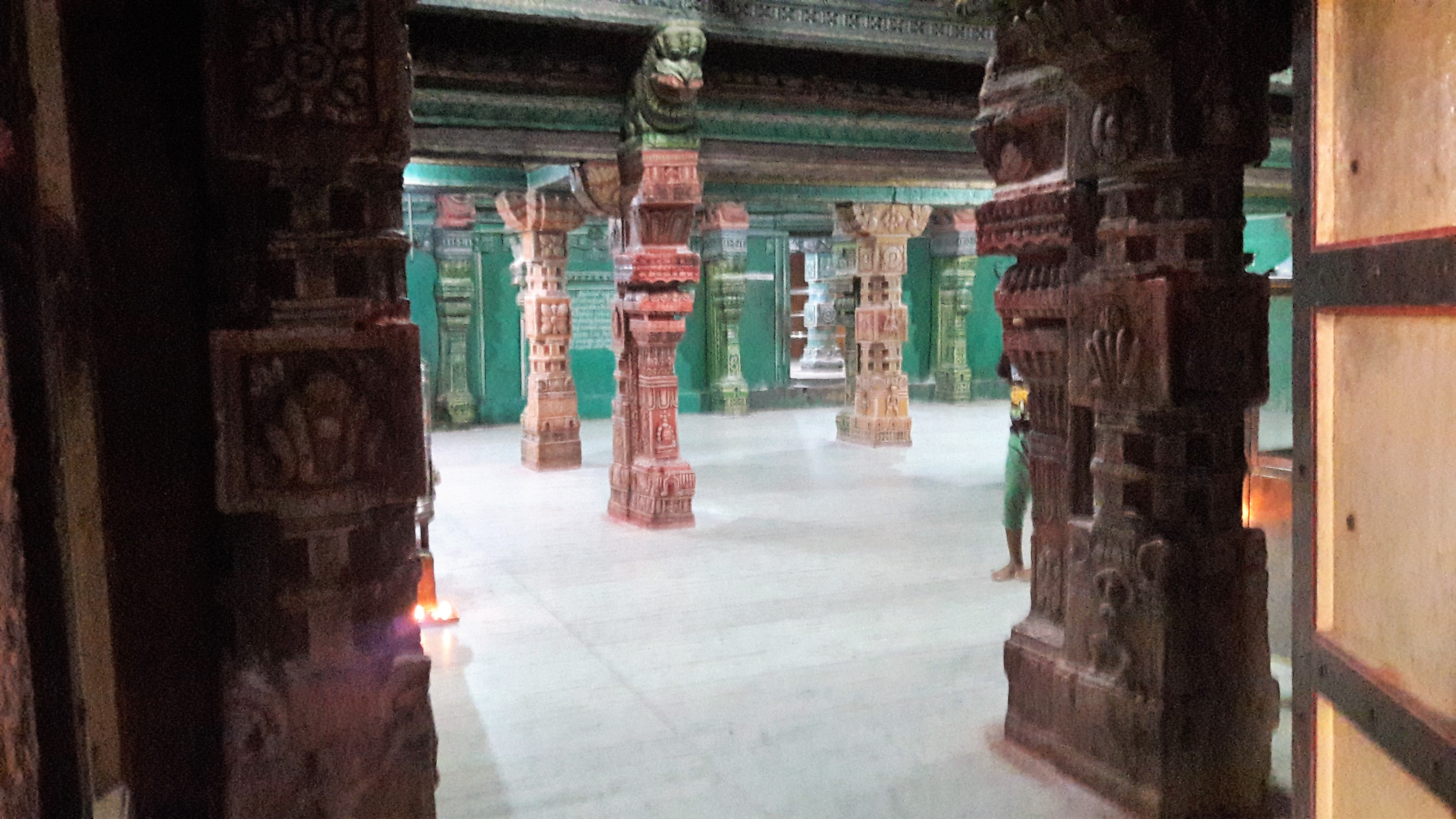 Thiruthankal Ninra Narayana Perumal